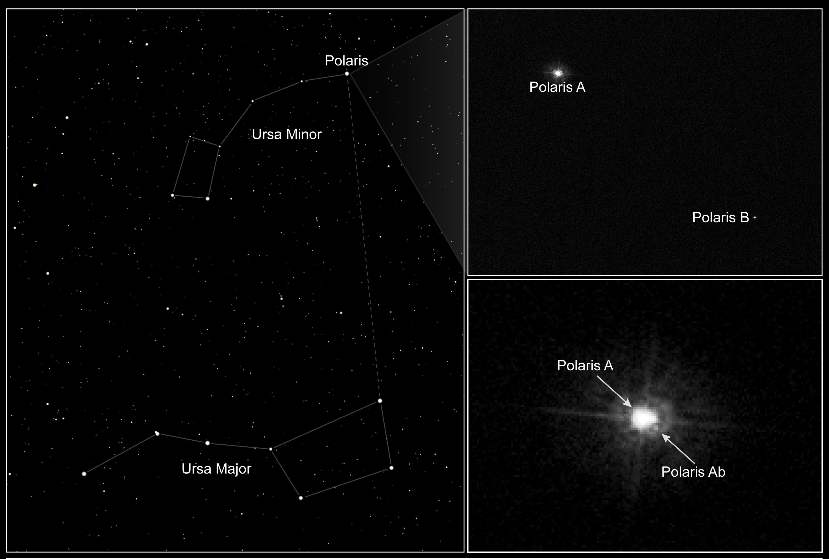 Polaris (Alpha Ursae Minoris) as seen by the Hubble Space Telescope.